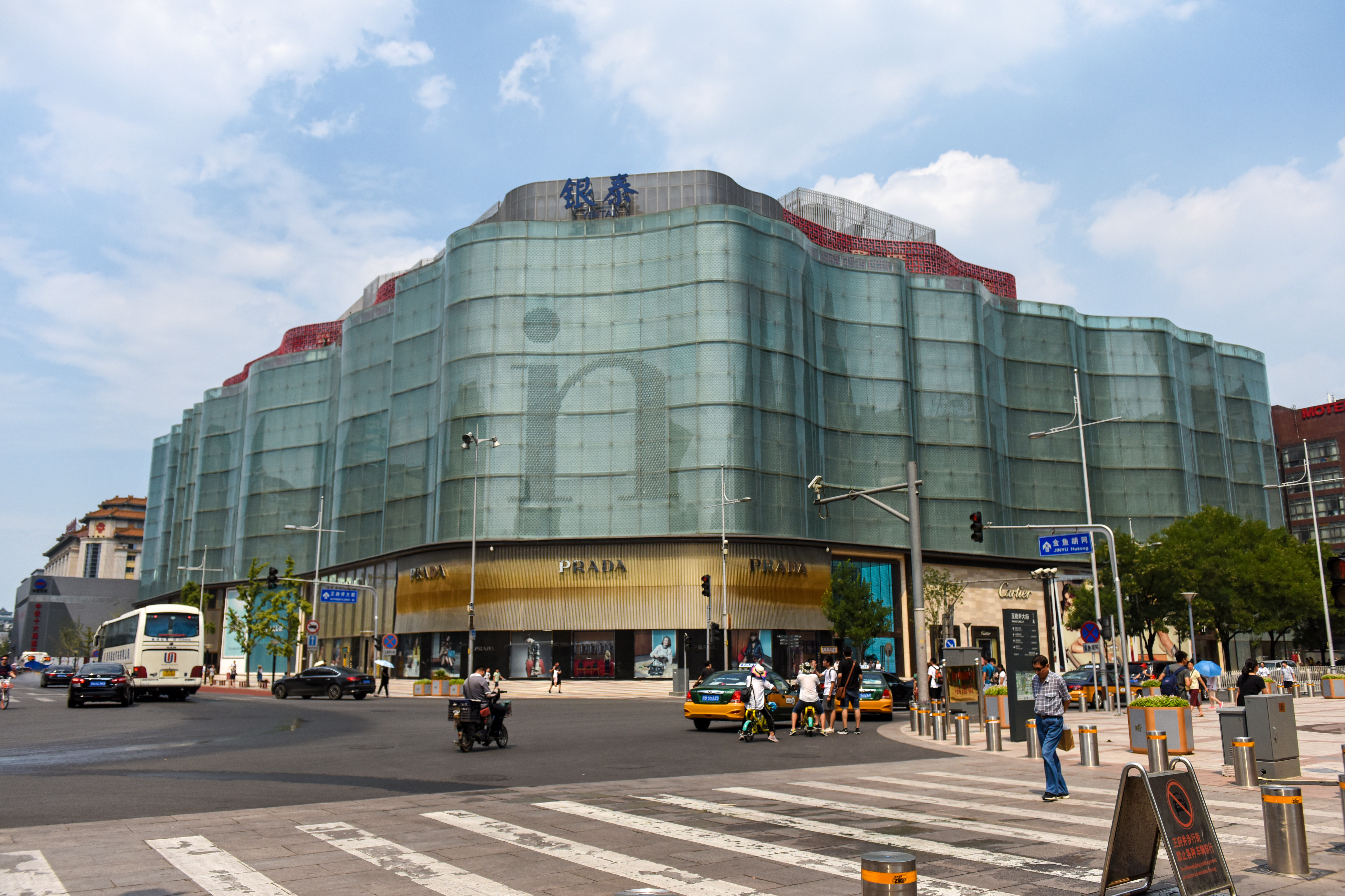 Tried to find photos of Jinyu Hutong Station, but failed.